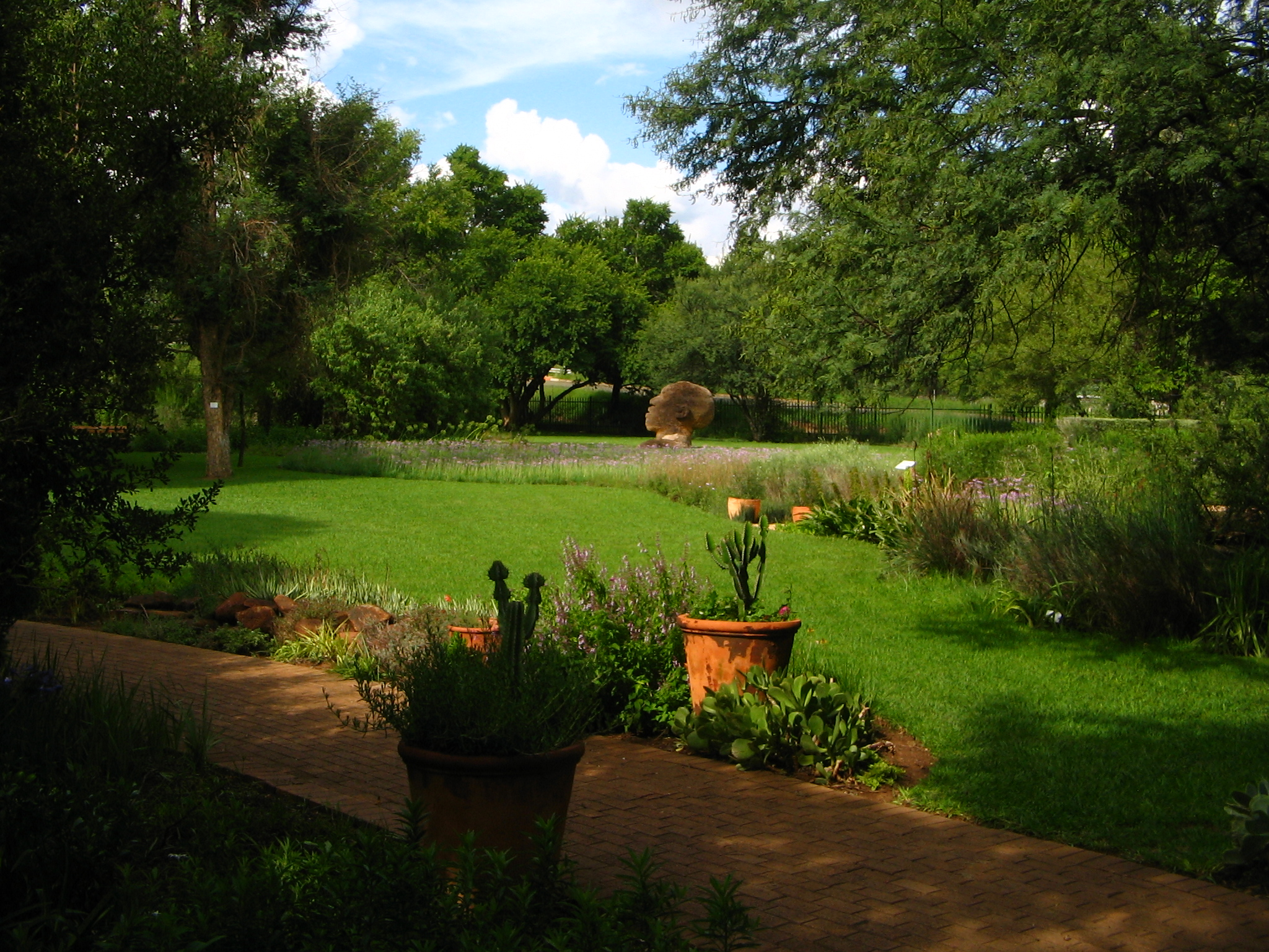 View over lawned area in the North-West University Botanical Garden